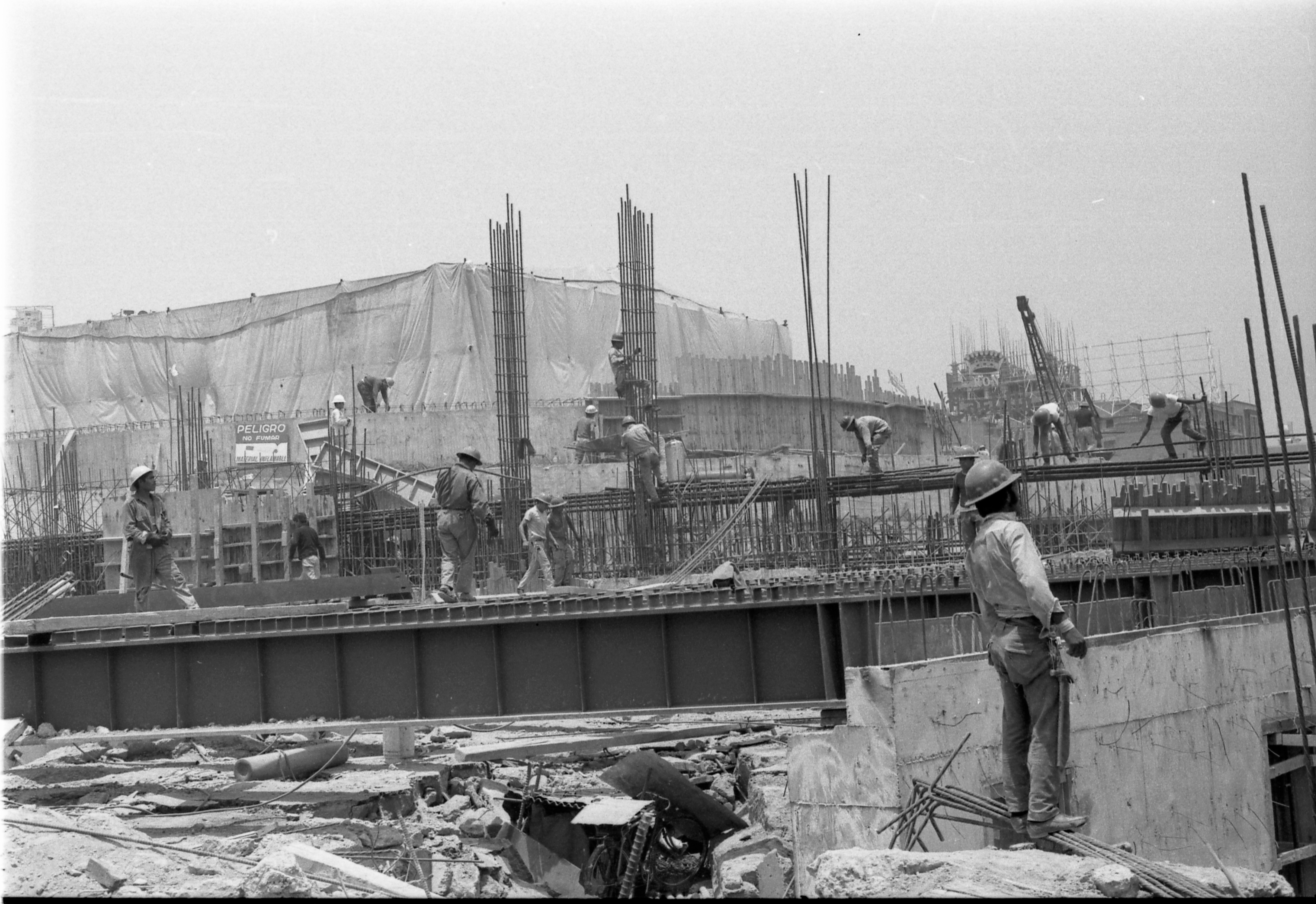 Works of building of Metro Insurgentes.